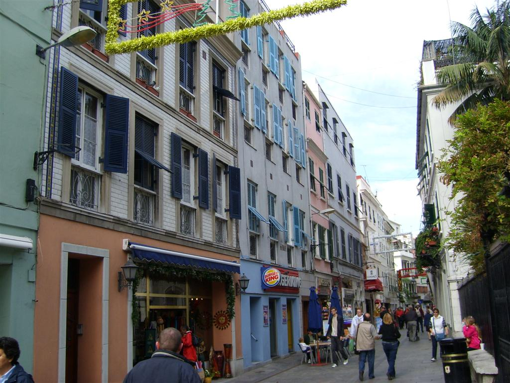 Northbound view of Main Street, Gibraltar.